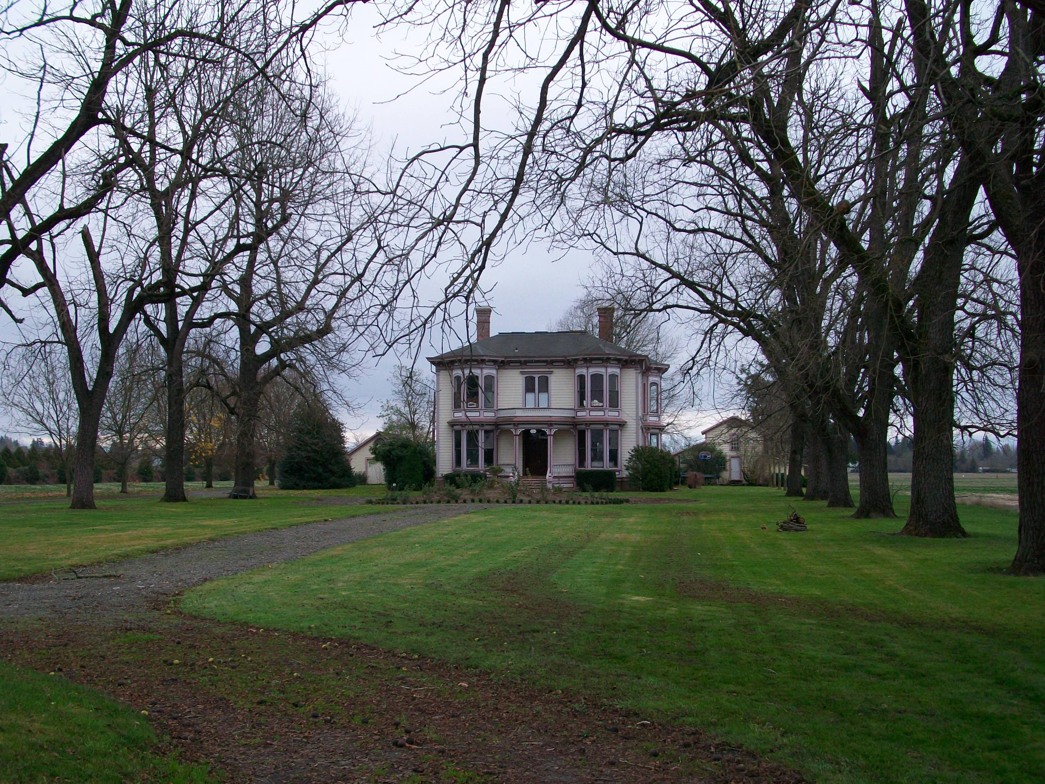 The historic William Barlow House (built 1885), located at 24670 South Highway 99E in Barlow, Oregon, United States, is listed on the US National Register of Historic Places (NRHP). NRHP reference number 77001098